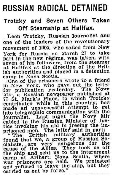 RUSSIAN RADICAL DETAINED Trotzky and Seven Others Taken Off Steamship at Halifax